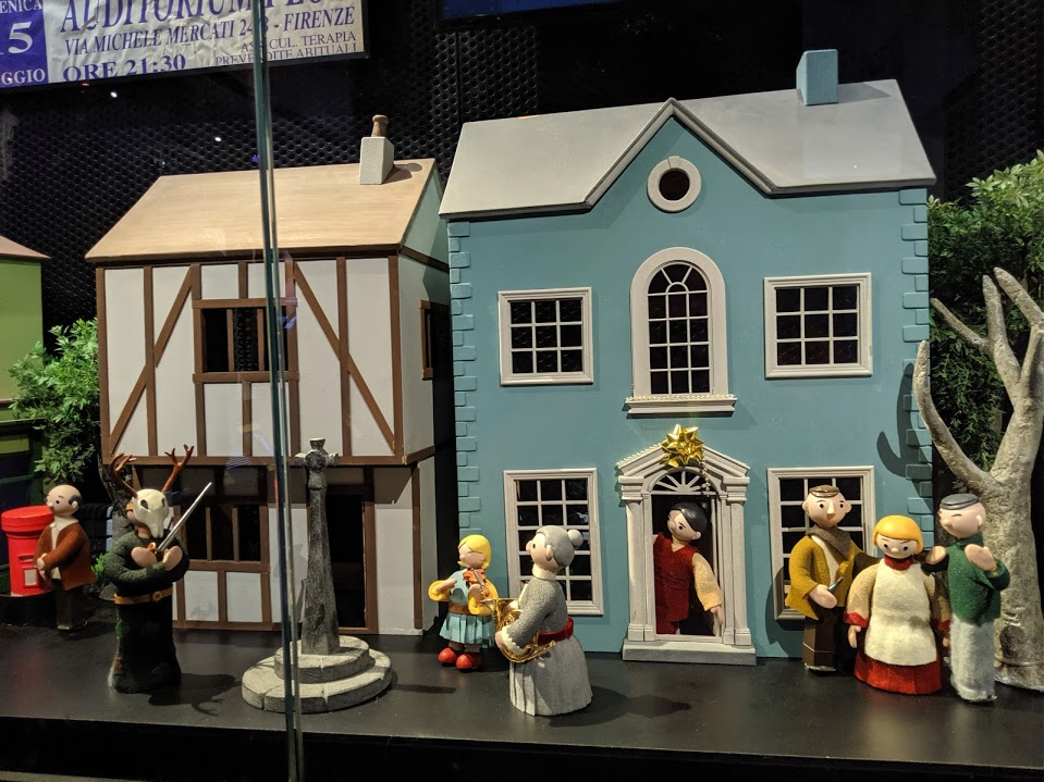 Prop from the music video for the 2016 song ʽBurn the Witchʼ by Radiohead